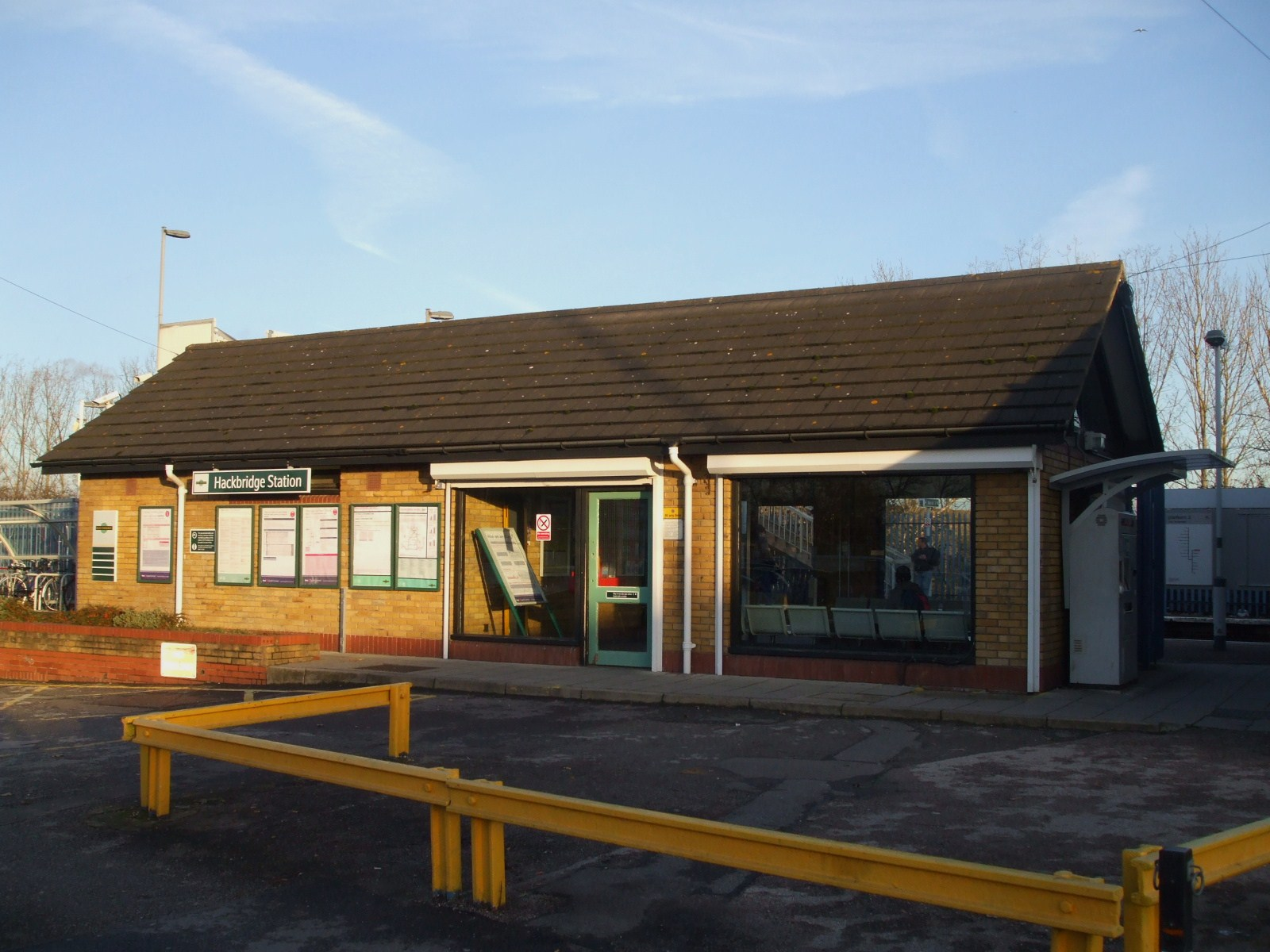 Hackbridge station building